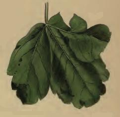 Stainton’s Natural History of the Tineina (1855–1873): Agonopterix silerella a leaf of Siler aquilegifolium attacked by larva